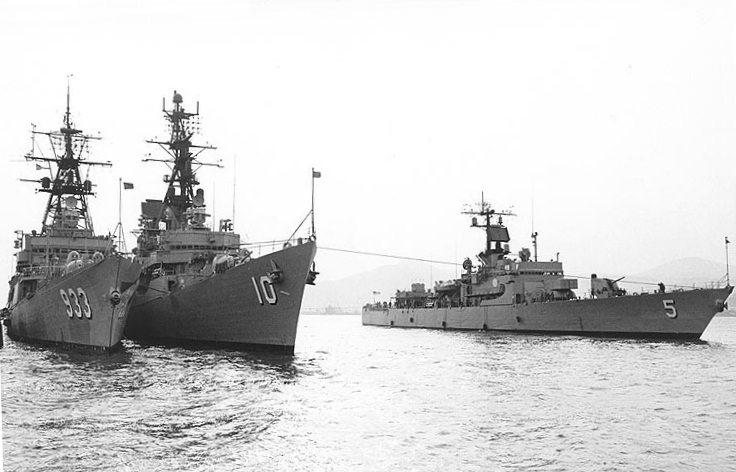 The U.S. Navy destroyers USS Barry (DD-933) (left), USS Sampson (DDG-10) (left-center) and the ocean escort USS Richard L. Page (DEG-5) (right) in Piraeus harbour near Athens, Greece, in 1974.